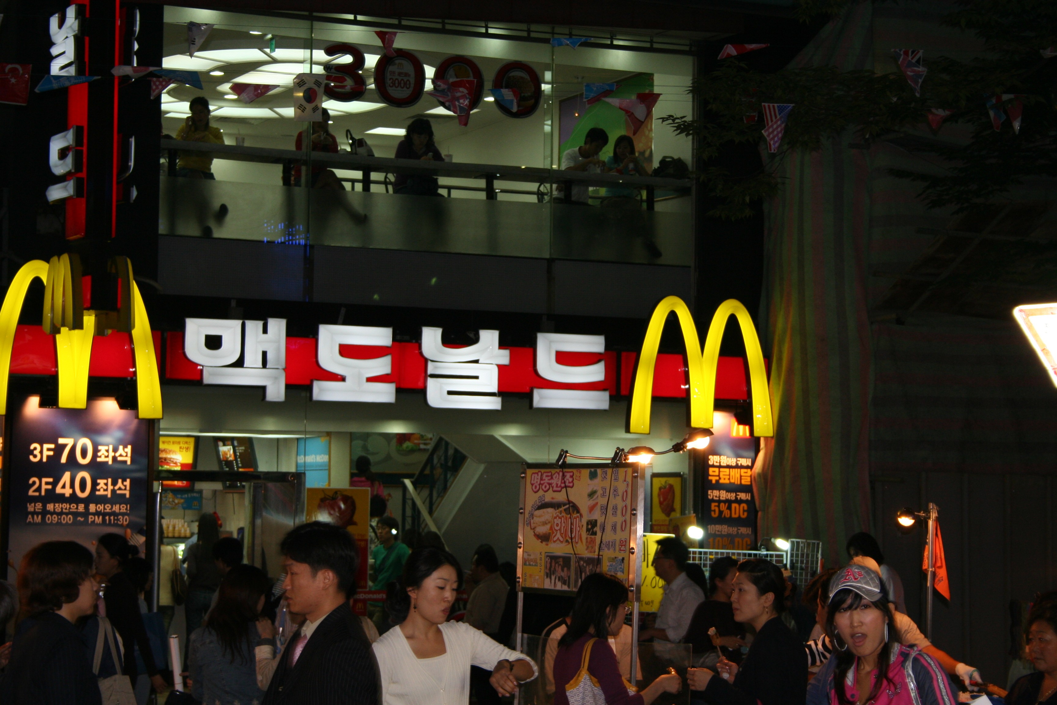 McDonald's in Seoul, Korea